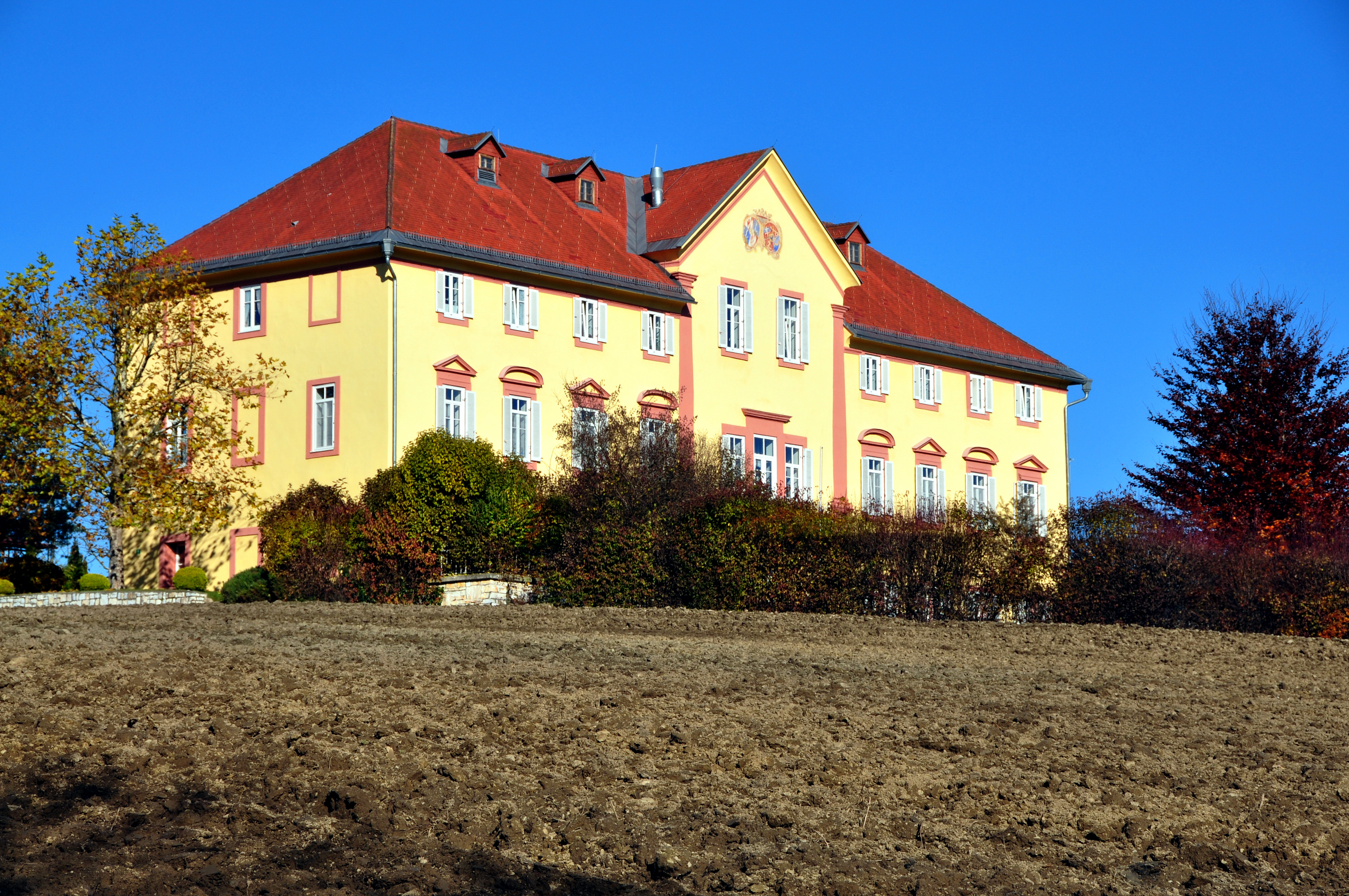 Castle on the Schloss Street #10 at Tigring, municipality Moosburg, district Klagenfurt Land, Carinthia, Austria